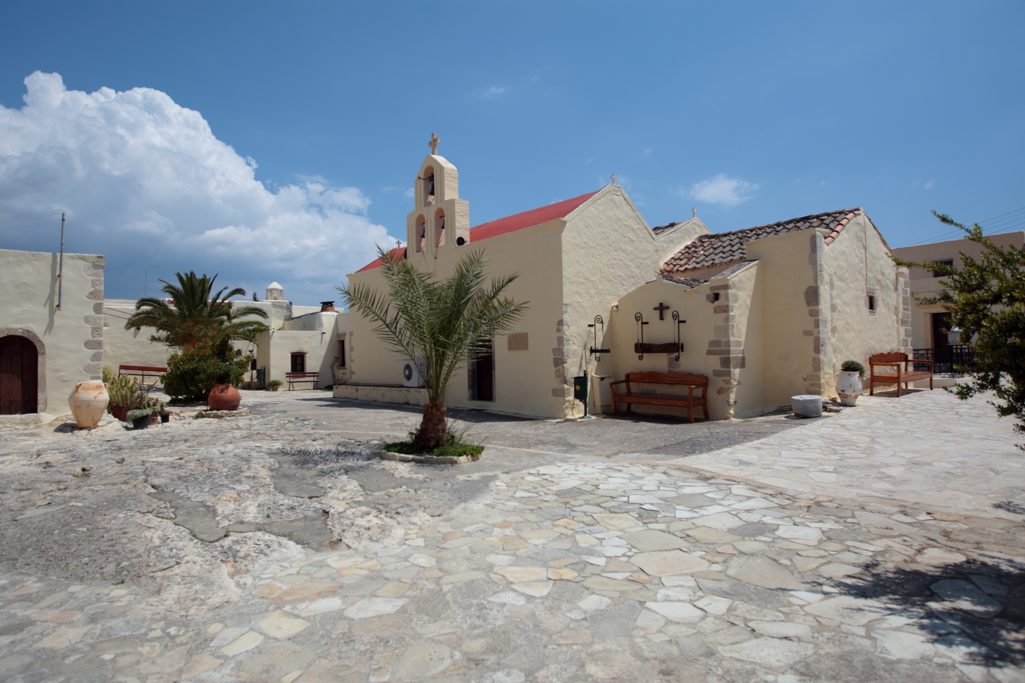 The monastery of Odigitria